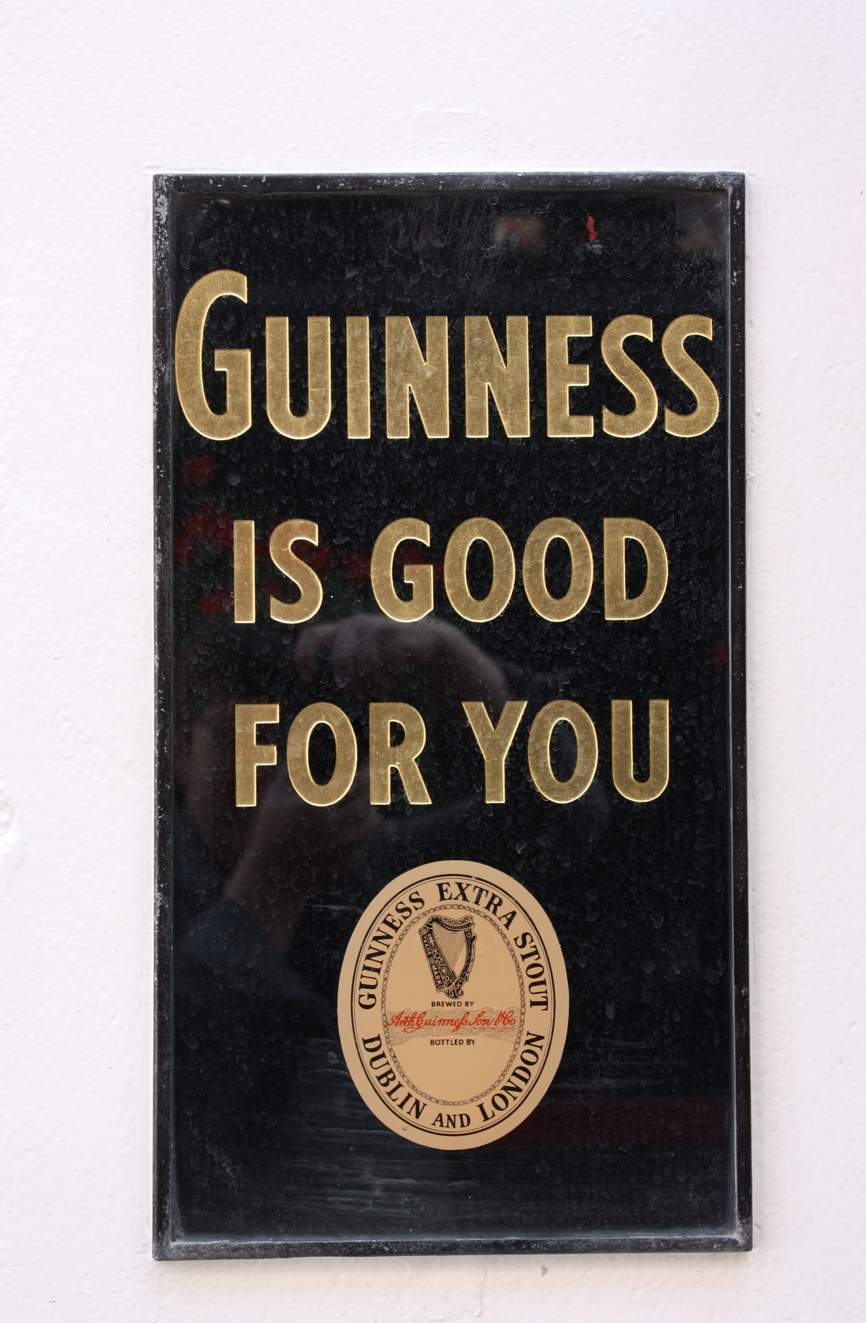 The Duke of York pub, Commercial Court, Belfast, Northern Ireland, July 2010